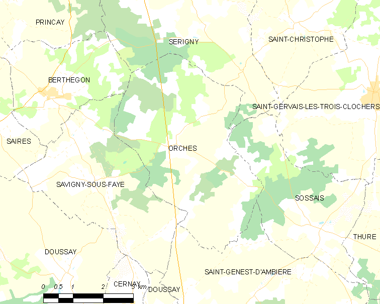 Map of French municipality Orches